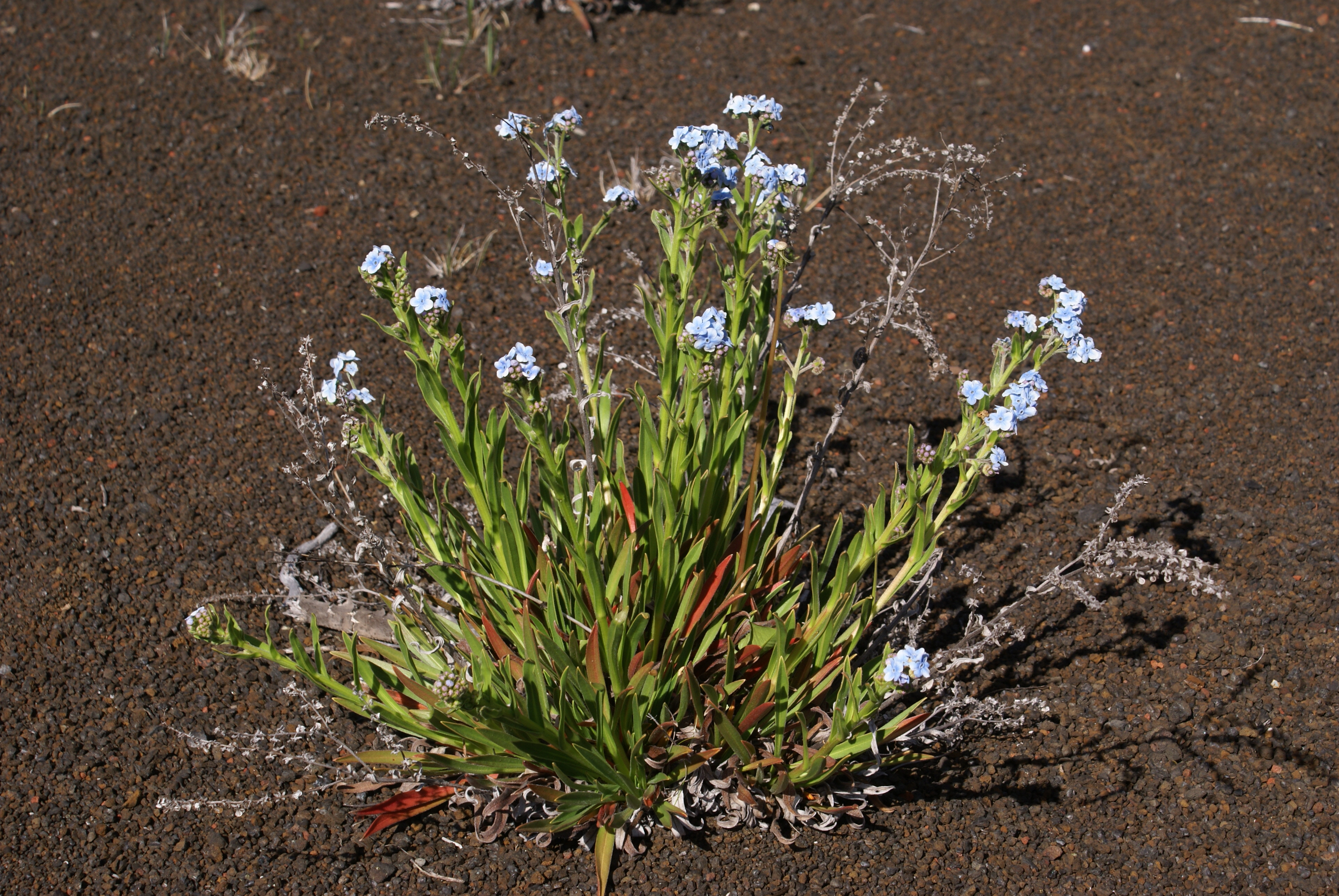 Cynoglossum borbonicum on Plaine des Sables (Réunion island)